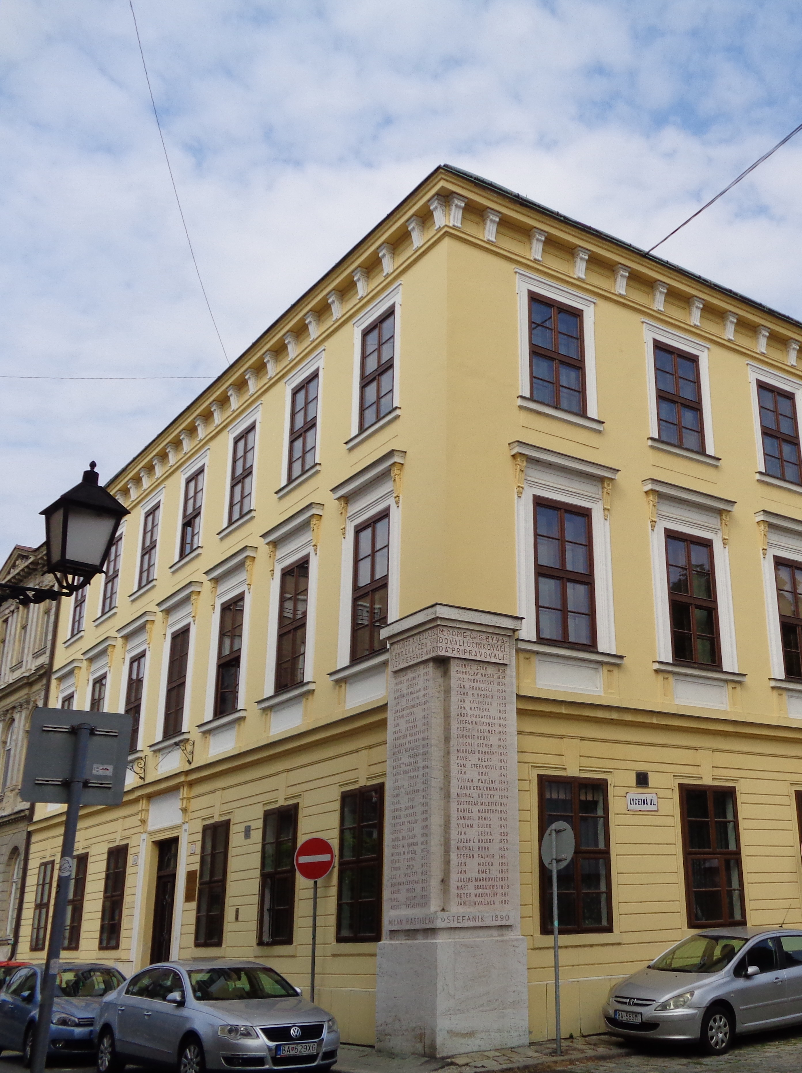 View of the former Evangelical Lyceum (new) in Bratislava. Memorial plaque on the corner contains 67 names of the most important students of lyceum.